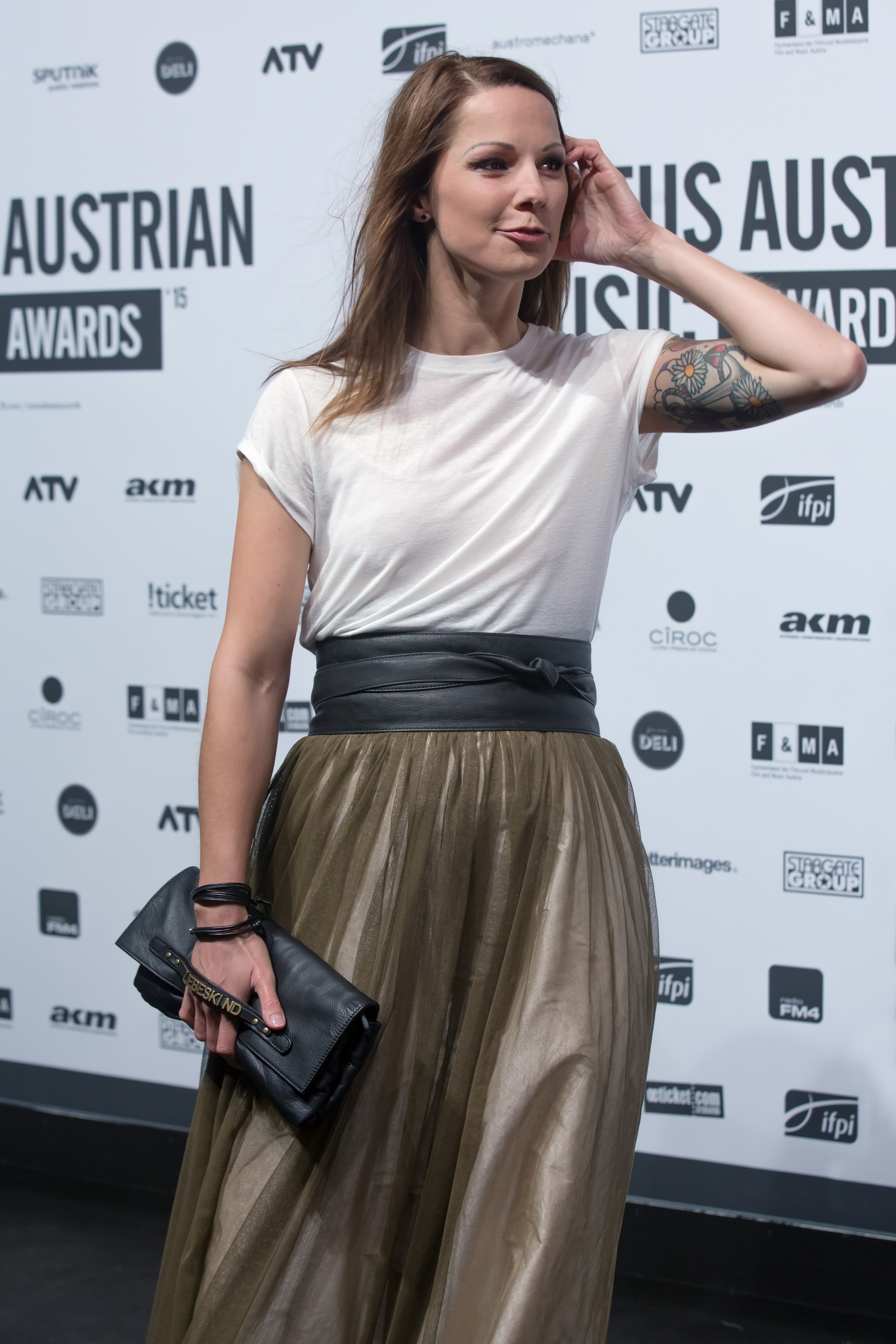 Christina Stürmer at the Amadeus Austrian Music Award 2015 at Volkstheater in Vienna